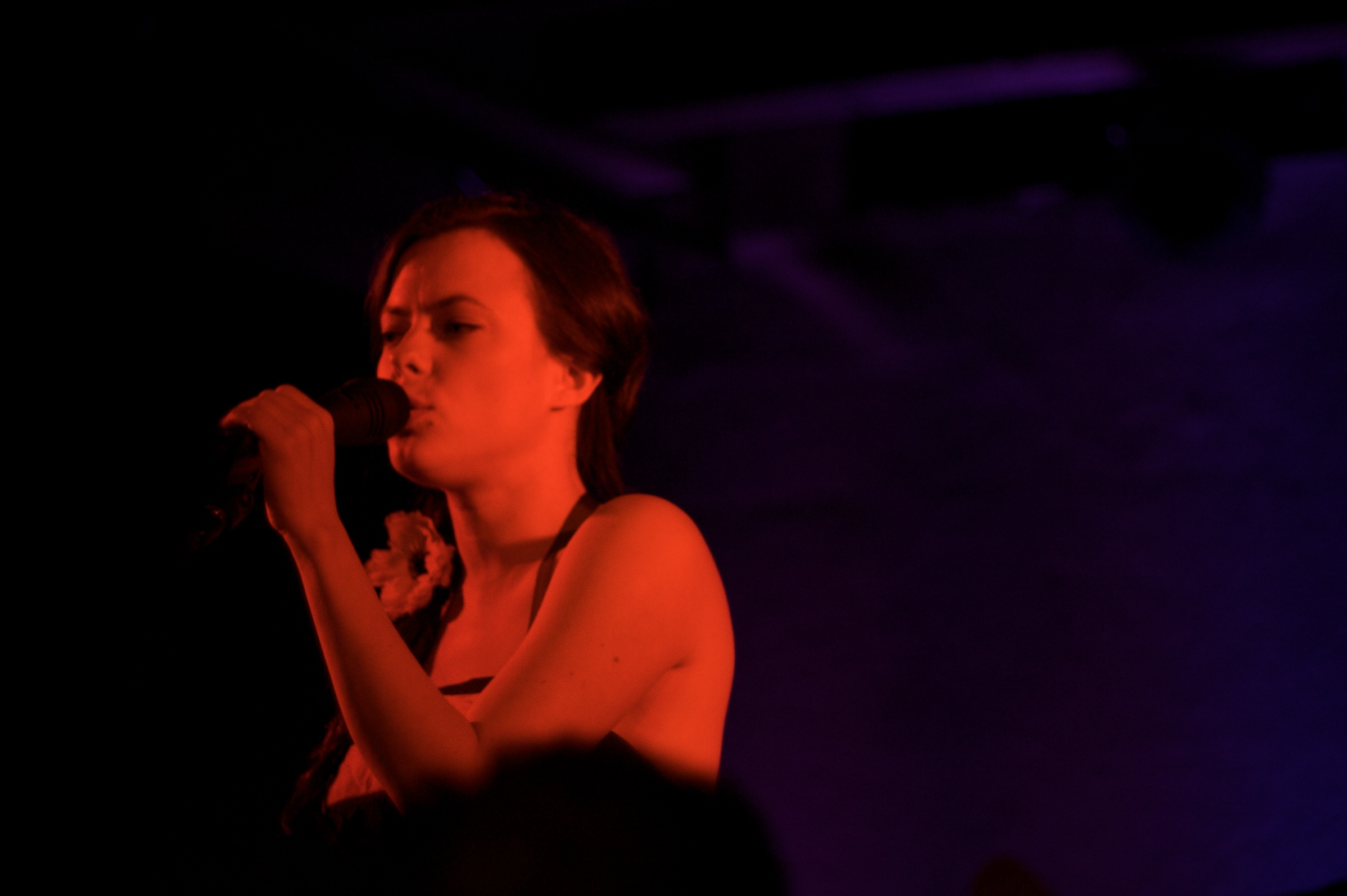 Hotel Cafe Tour at Doug Fir in Portland Oregon This image is provided under a Creative Commons Attribution License, please credit "Christian Reed - Concert Co-Op" and link back to this page if you'd like to use it. A quick email at use letting me know that you're using it is always nice too. I like to see where they end up. For commercial uses the subjects will need to be contacted for consent and/or license. Please contact me if you'd like to discuss license for use with no attribution. See more of my photos at and submit your own images to get featured on Concert Co-Op at .